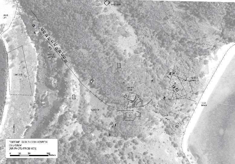 Fantome Island - aerial 2 (2012), lock hospital